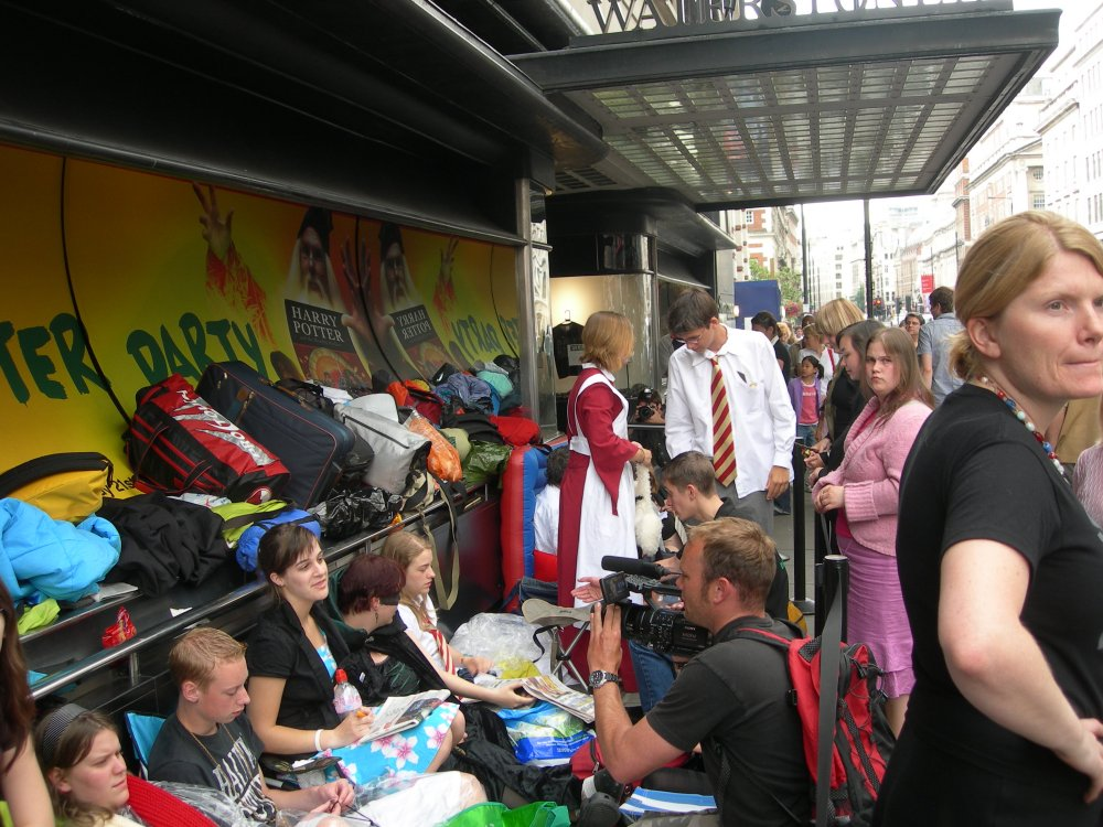 People queued for Harry Potter and the Deathly Hallows book, at Waterstone's book shop in London (near Picadilly Circus). Photo taken by myself.